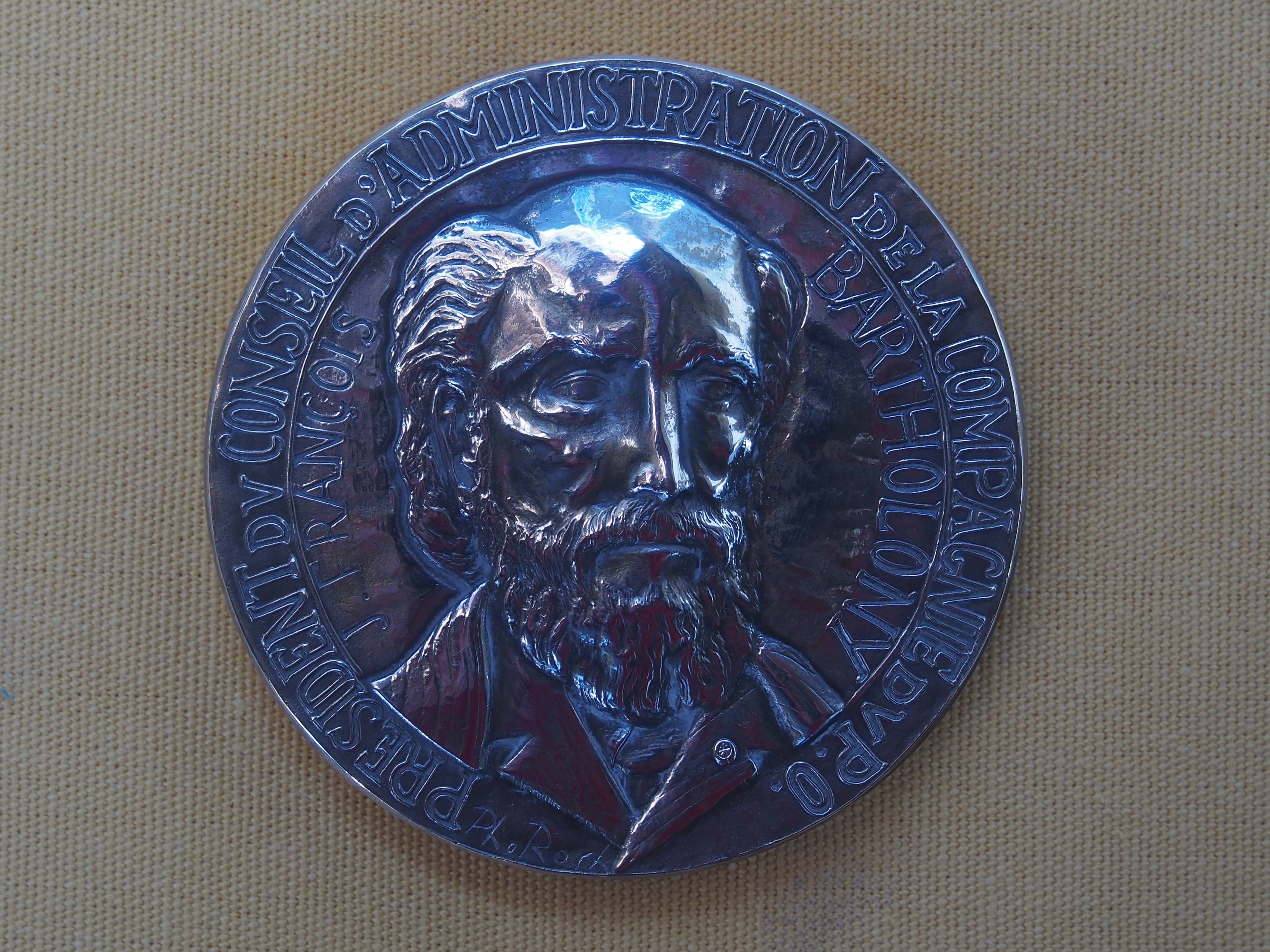 Photographed in Mulhouse, France.